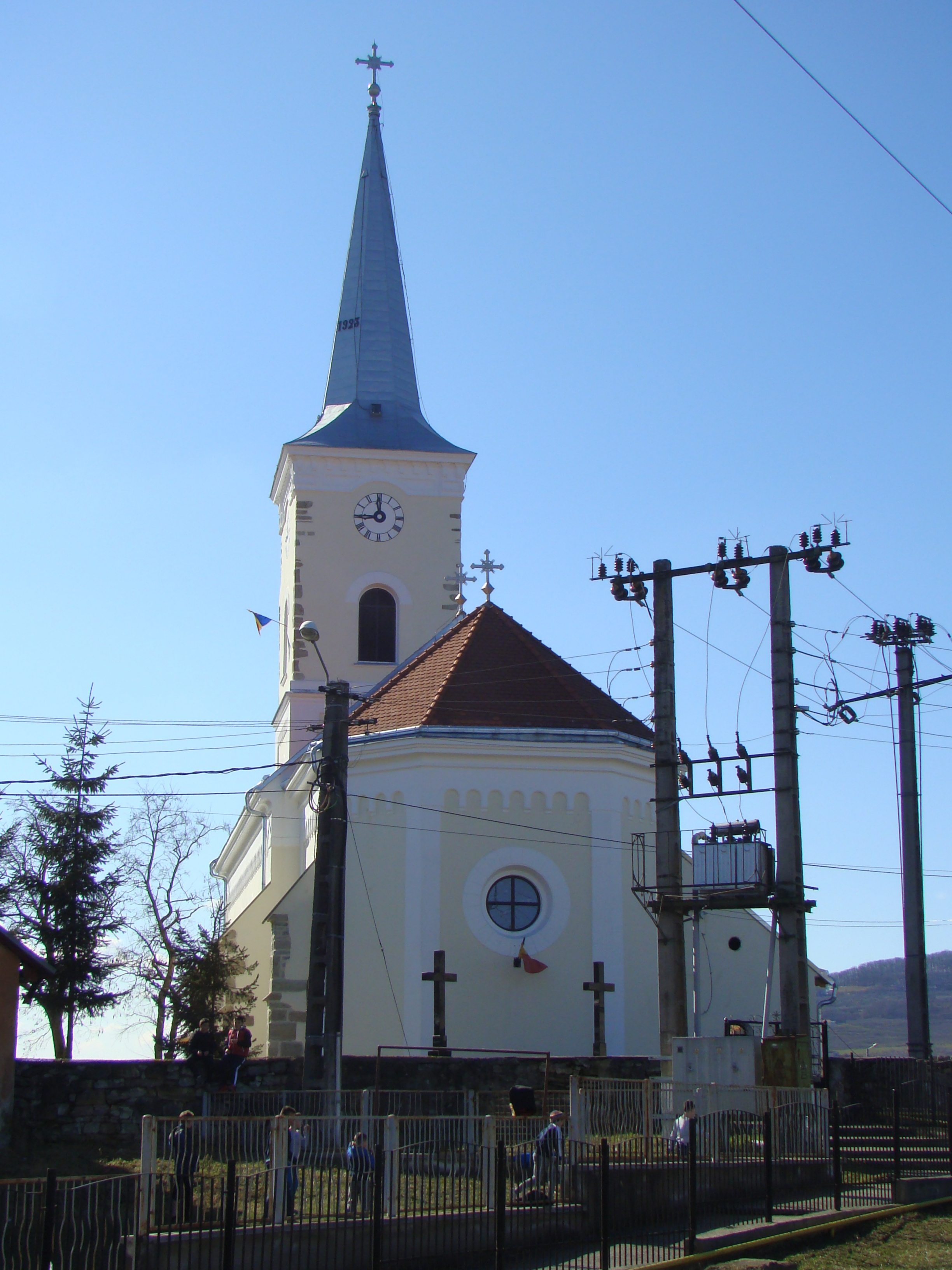 Church of the Saints Archangels in Unirea, Bistrița-Năsăud county, Romania